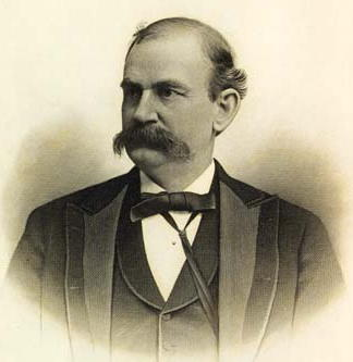 Wharton J. Green, US Representative from North Carolina